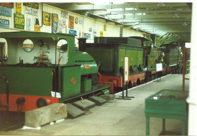 Darlington.. Inside the North Road Railway Museum.